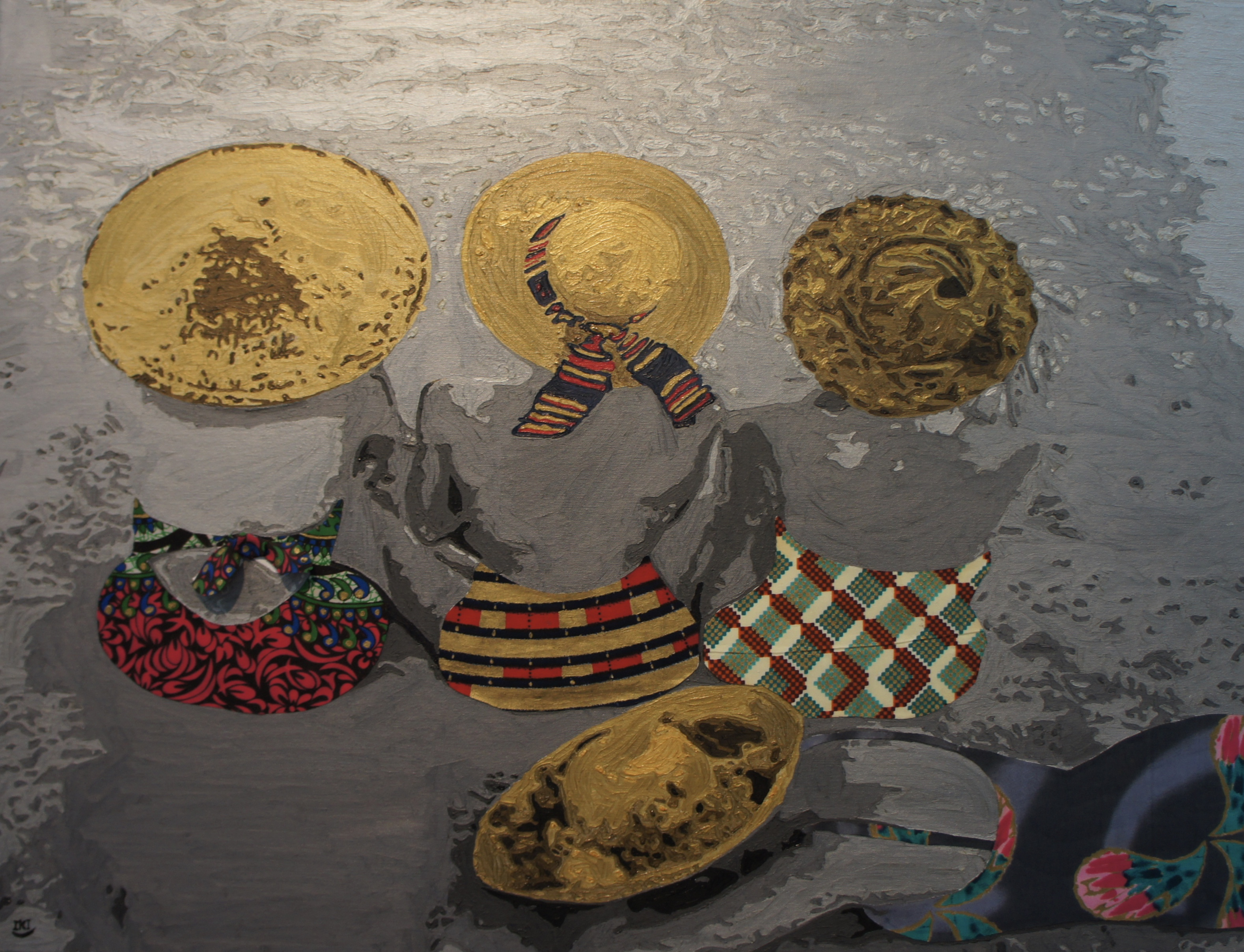 technique mixte, collage sur canevas, tableau acheté par un collectionneur et homme d'affaire Chinois.